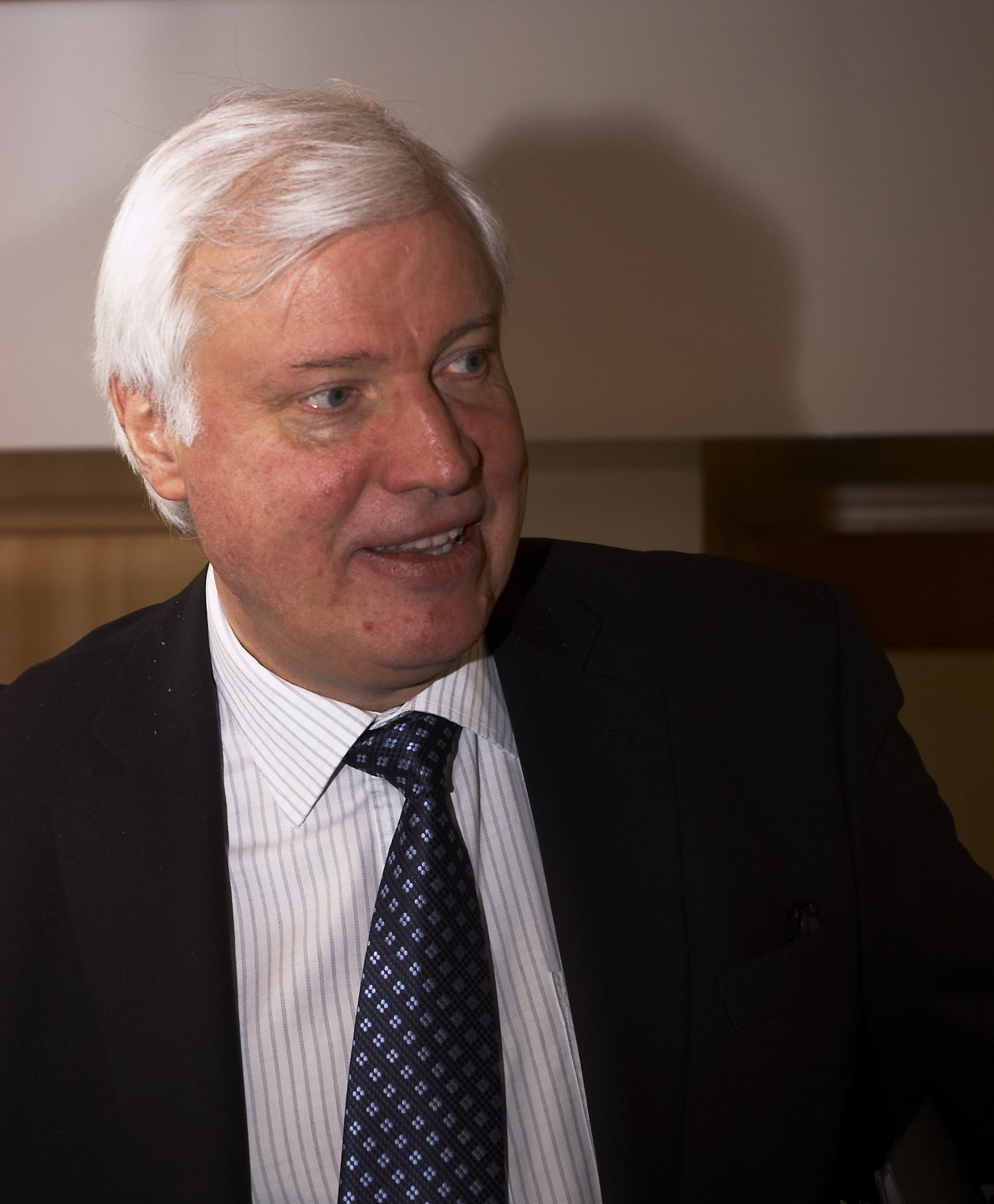 Håkan Roswall, prosecutor, during the Pirate Bay trial